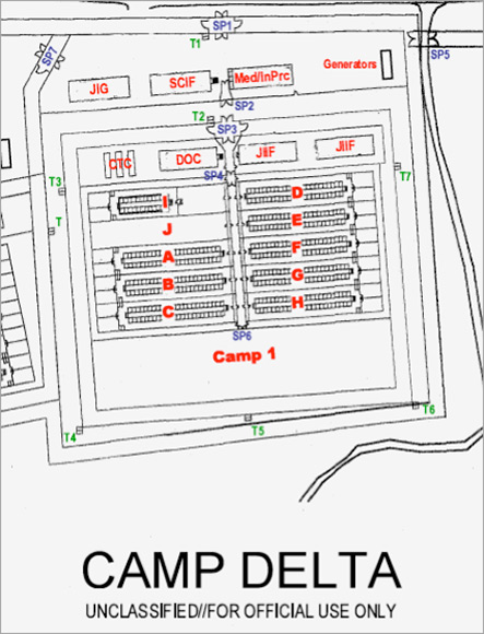 map of camp delta from "Camp Delta Standard Operating Procedure".